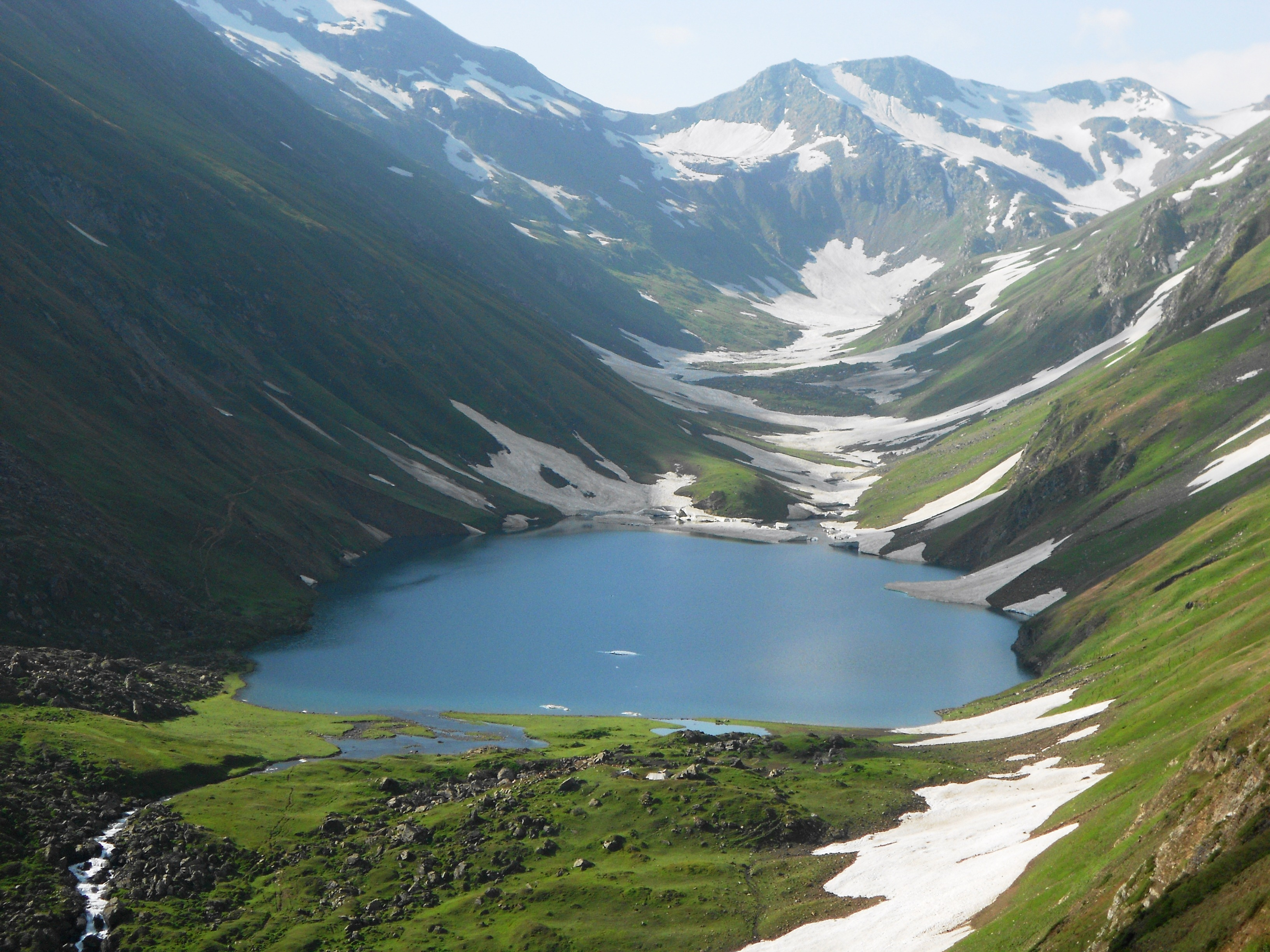 An image of the Saral lake. Only the lake has been captured in the image. The image was captured in natural daylight